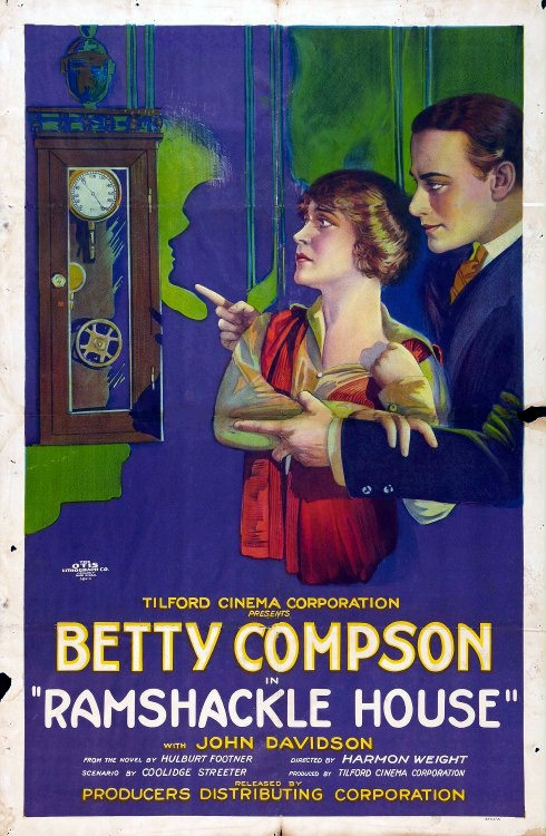 Poster for the 1924 film Ramshackle House. Renewal searches were done in both artwork and film for the years 1951 and 1952. There were no listings for this title in film renewals. There were no listings for Tilford Cinema, Producers' Releasing Corporation or Otis Litho (NY)-the company who printed the poster. There's no evidence of renewal for the film or its related materials.